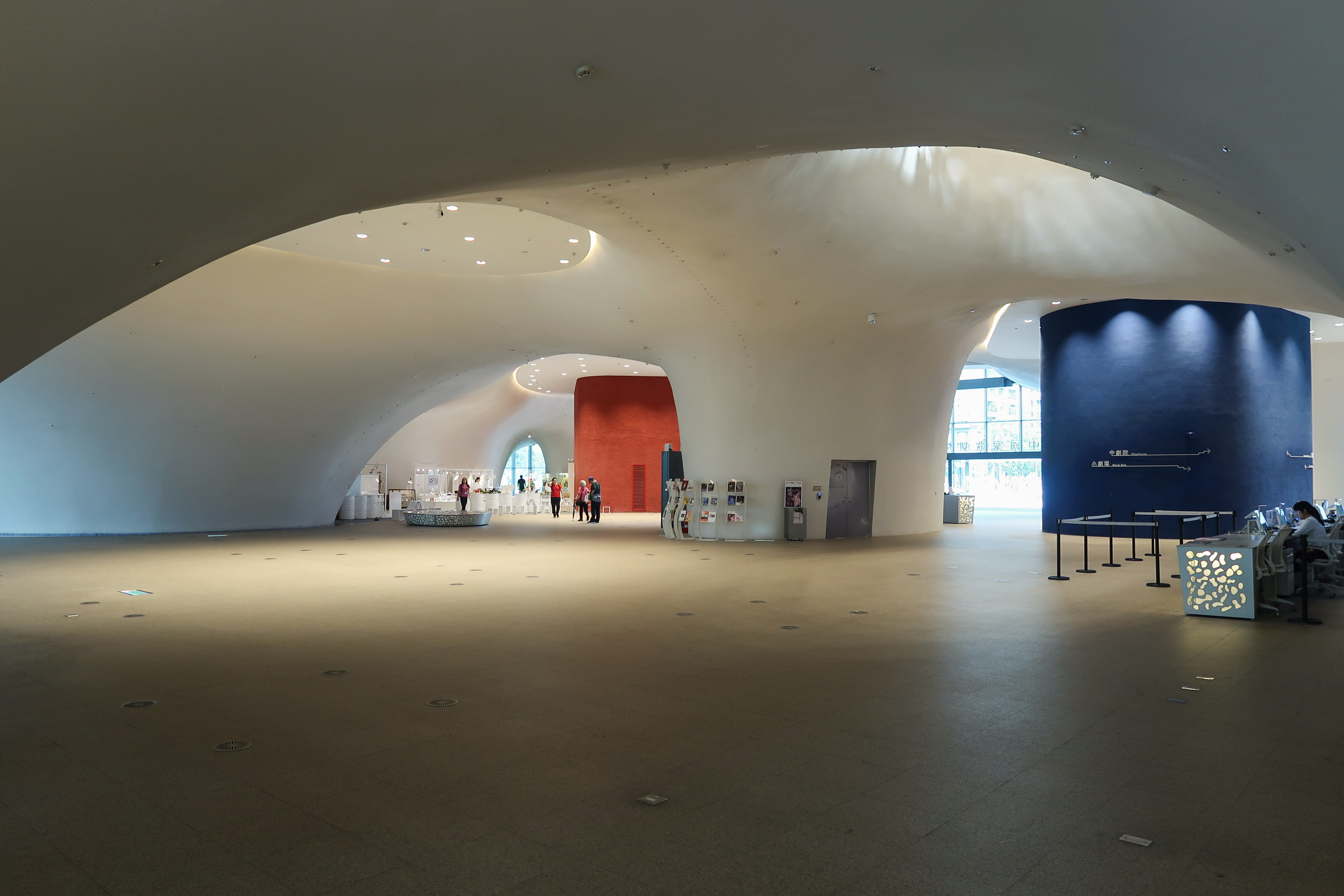 National Taichung Theater Level 1 lobby view